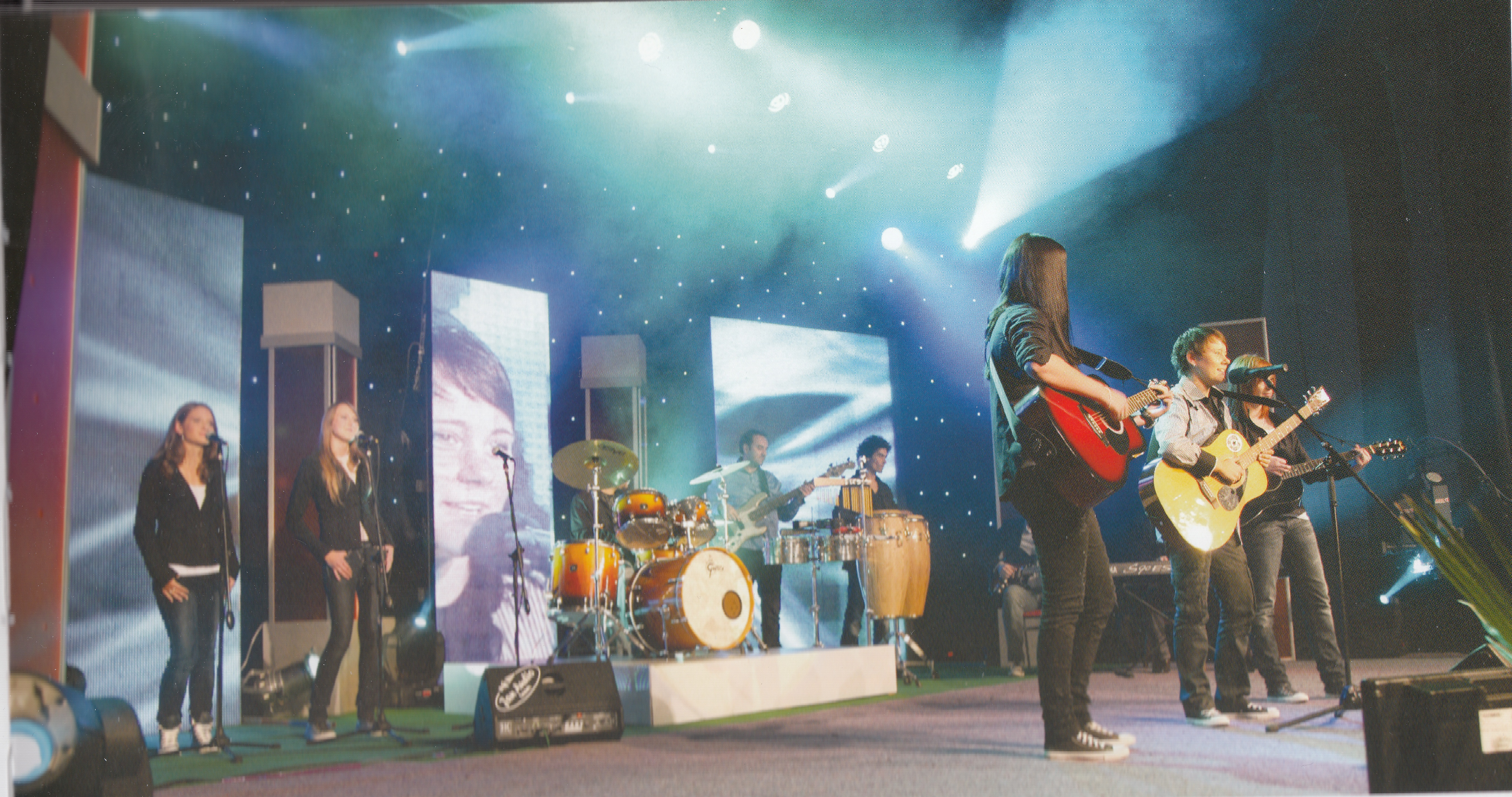 А photograph of participants of the Festival "Zlatni ključ" in Selenča (Vojvodina, Serbia). Taken from the monograph Slováci v Srbsku z aspektu kultúry. Srpski (latinica): Fotografija učesnika festivala "Zlatni ključ" u Selenči. Preuzeto iz monografije Slováci v Srbsku z aspektu kultúry.